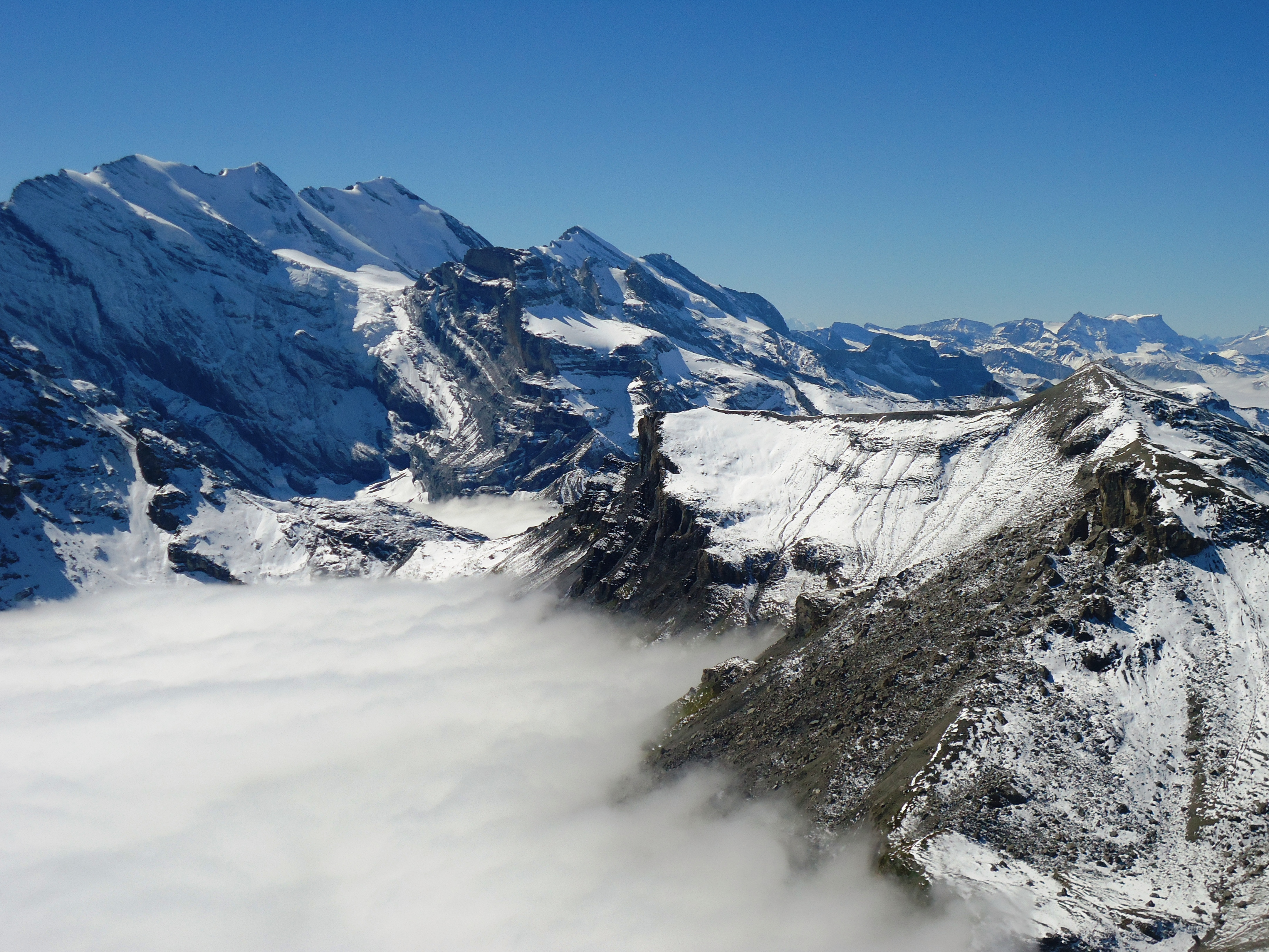 The Alps amidst the clouds as seen from Piz Gloria Schilthorn